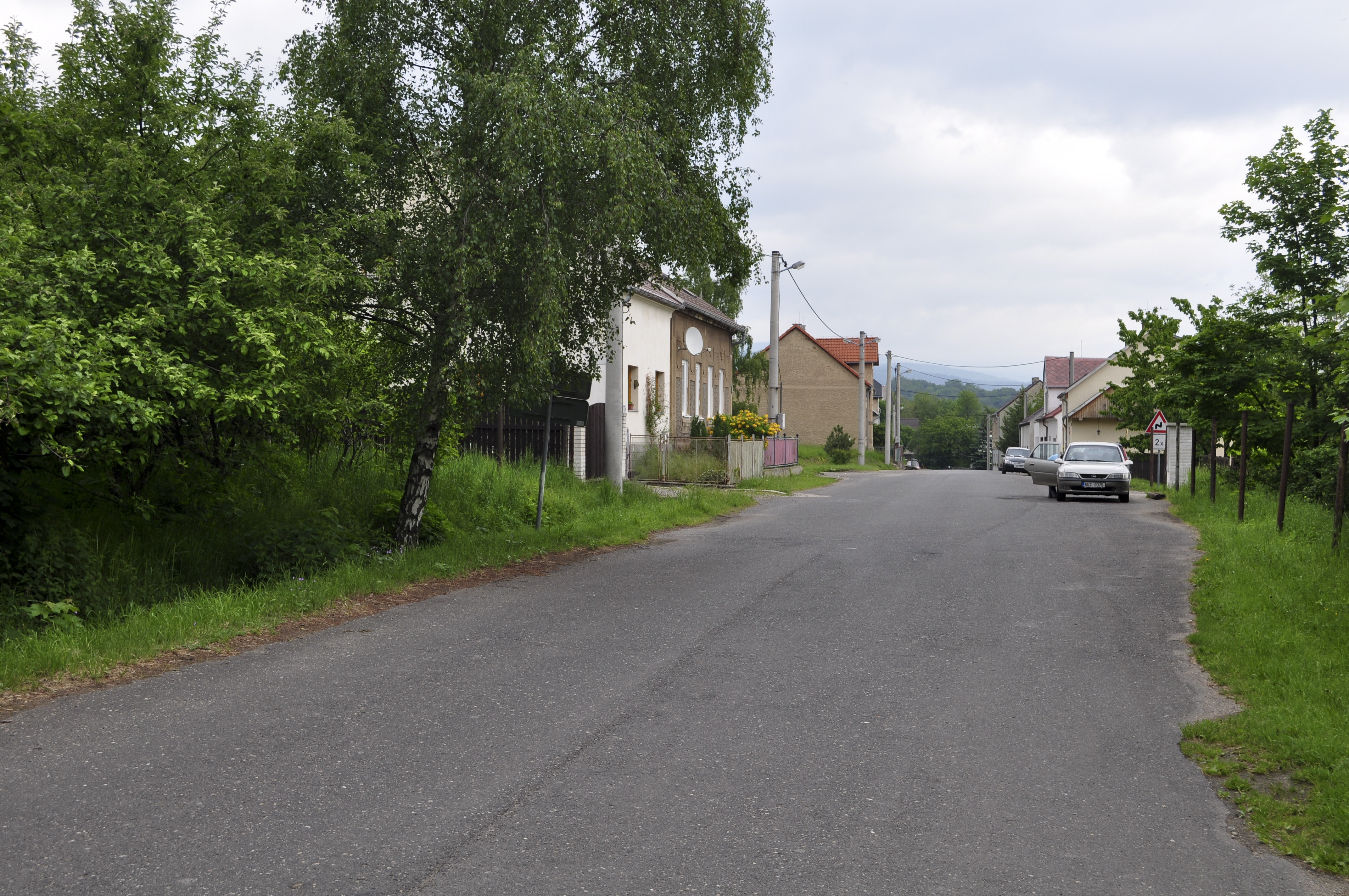 Černice, main road - view from Jezeří